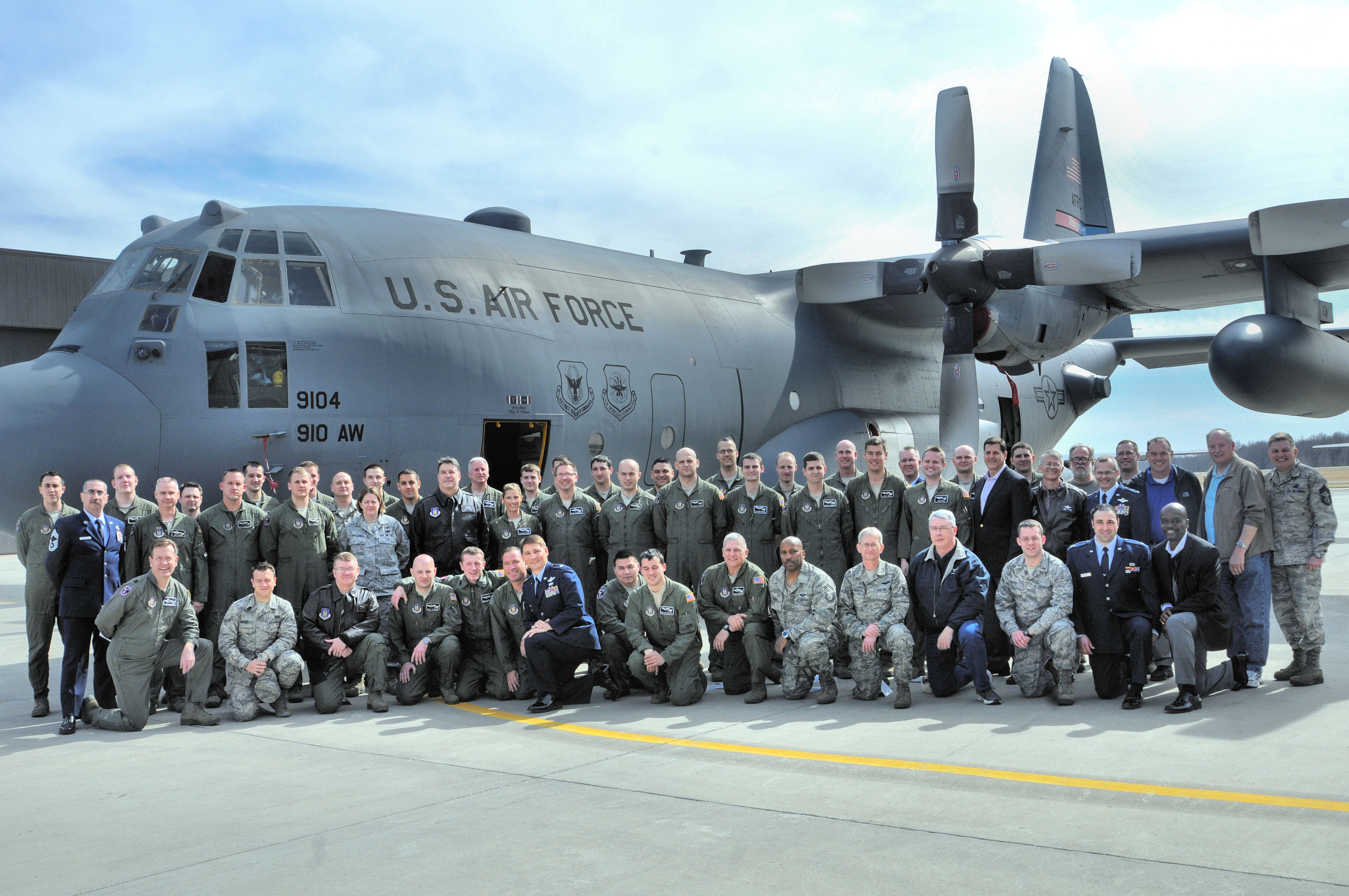 Past and present members of the 773rd Airlift Squadron pose in front of a C-130 Hercules aircraft here, April 6, following the unit’s deactivation ceremony. The squadron, which was activated as a unit of the 910th Airlift Wing in 1995, was officially deactivated on March 31. The deactivation resulted from Air Force structure changes that reduced the 910th’s C-130 aircraft fleet to eight Primary Assigned Aircraft and on Back-up Inventory Aircraft. U.S. Air Force photo/Tech. Sgt. Rick Lisum.